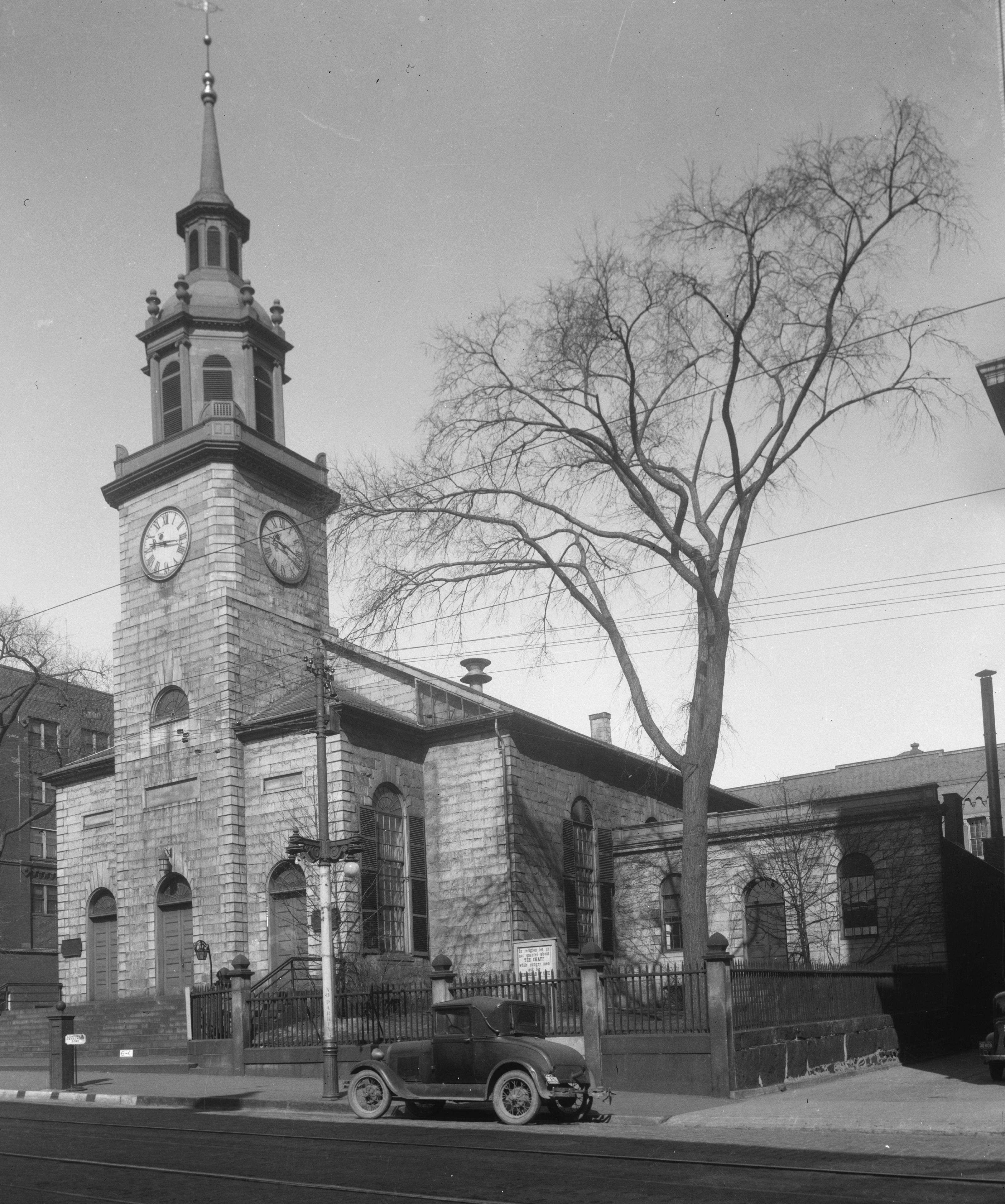 Front of the First Parish Church, located at 425 Congress Street in Portland, Maine, United States. Built in 1825, it is listed on the National Register of Historic Places.